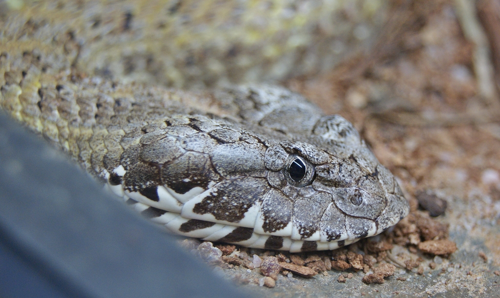 Acanthophis praelongus